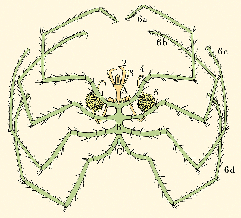 External anatomy of Nymphon sea spider. After G. O. Sars (1895).